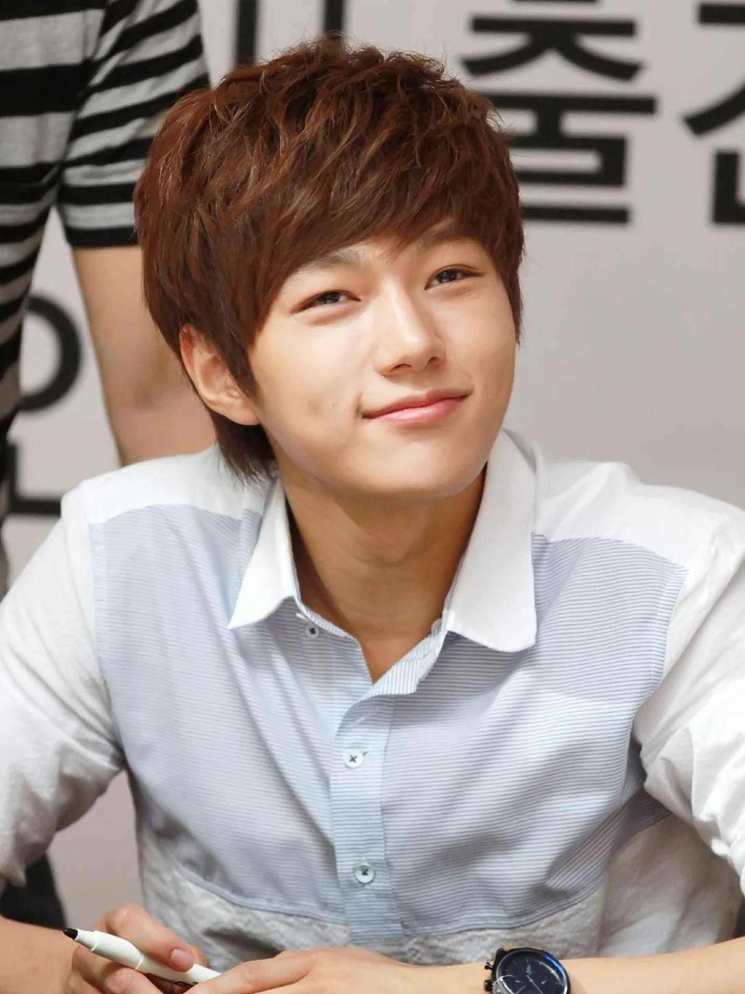 Kim Myung-soo at L's Bravo Viewtiful Fansigning Event on June 9, 2013.